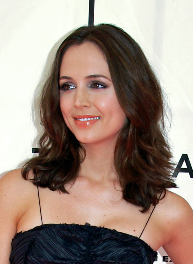 Eliza Dushku at the 2007 Tribeca Film Festival.